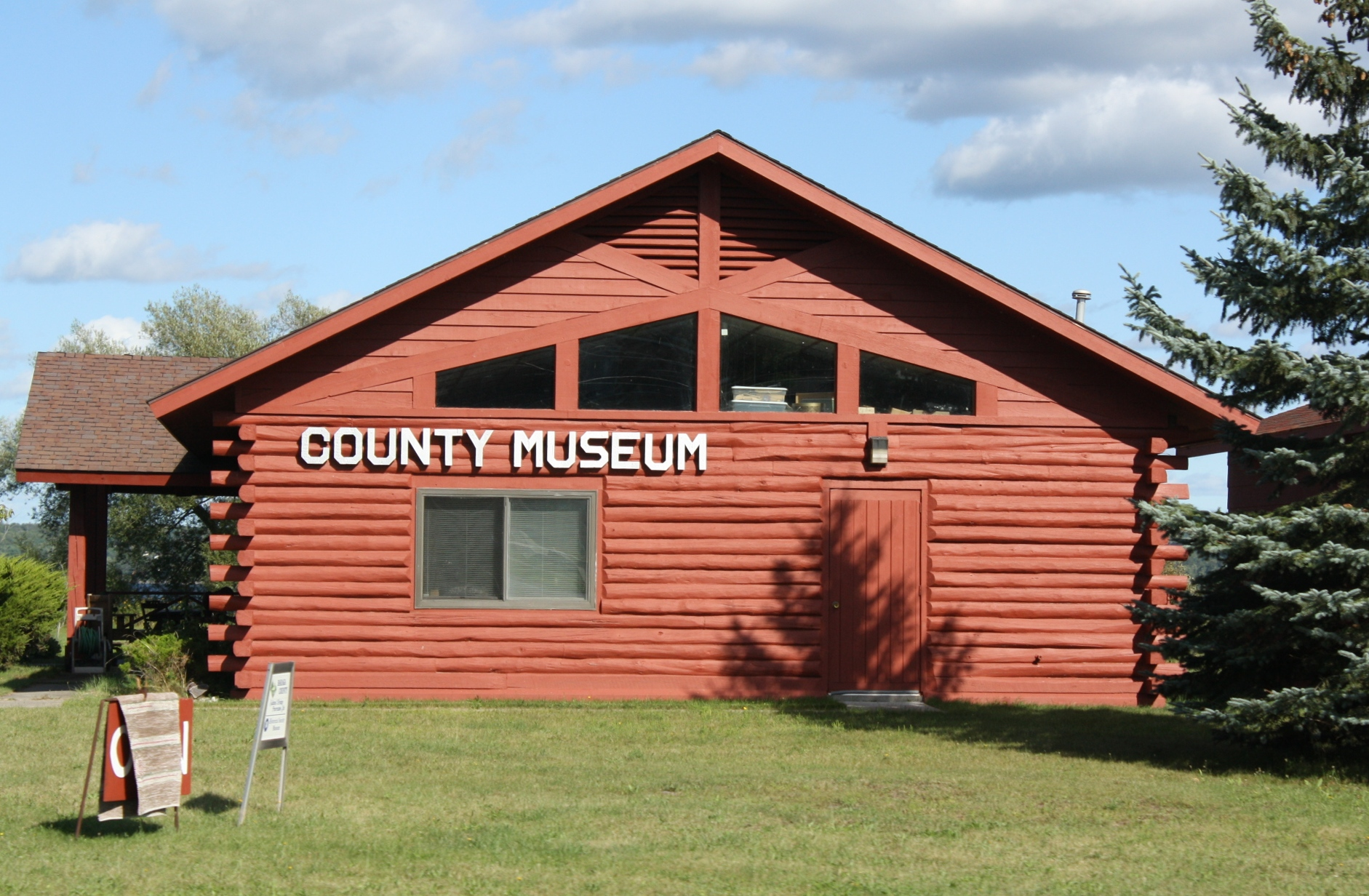 The Baraga County, Michigan Museum near Baraga, Michigan along U.S. Route 141.